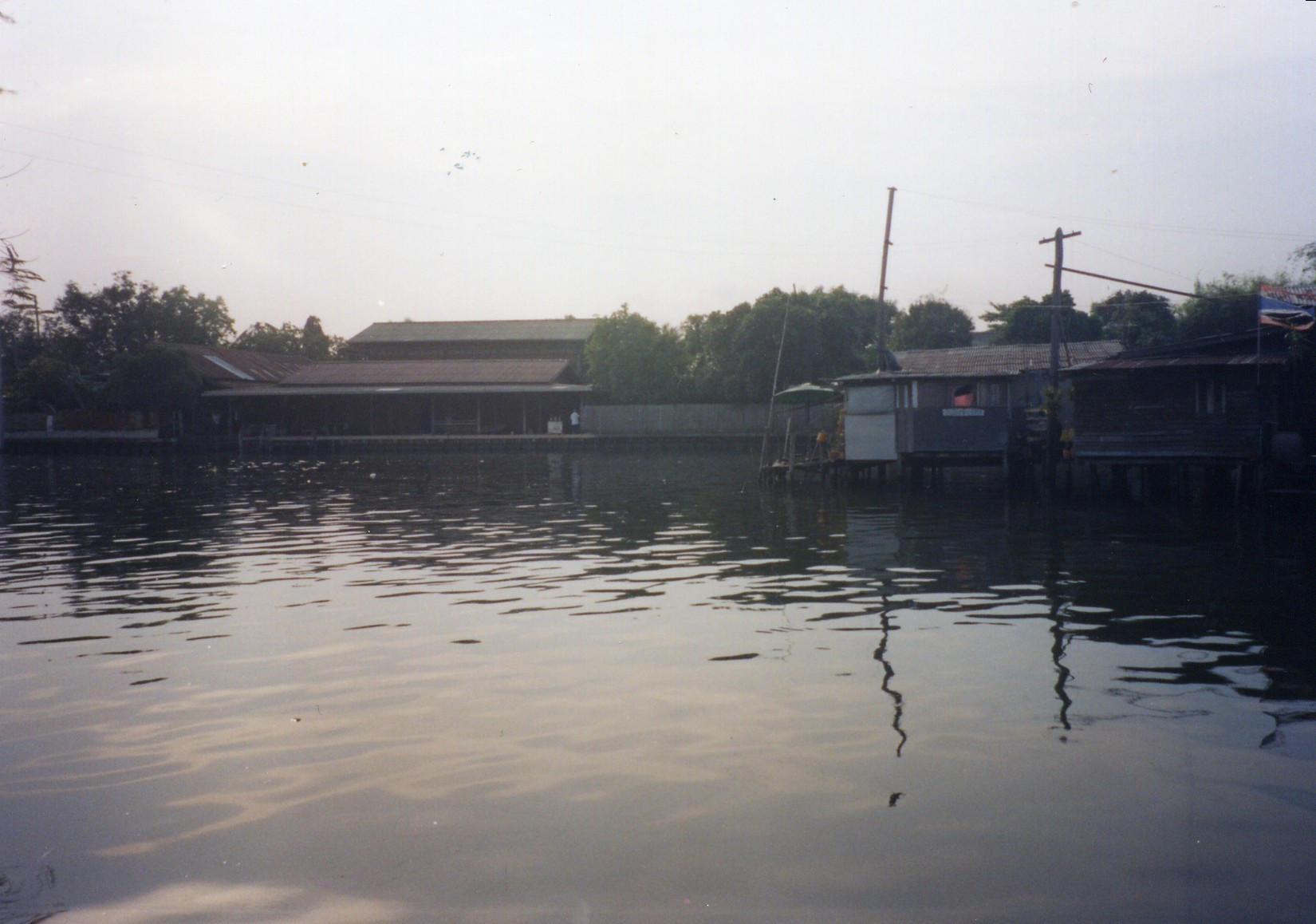 Phra Khanong Canal View from Wat Maha But famous in the legend of "Mae Nak or แม่นาก / Nang Nak or นางนาก"